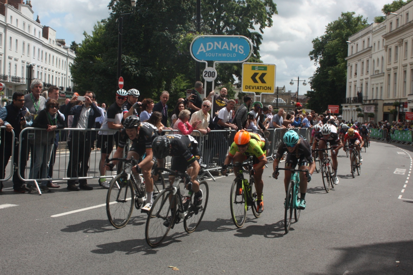 Although the race saw a breakaway group of four riders in the lead for most of the day,stage 3 of the 2017 Women's Tour came down to a bunch sprint for the finishing line in Royal Leamington Spa. Two WiggleHigh5 riders (Jolien d'Hoore and Giorgia Bronzini) try to win the race but are being overtaken by Chloe Hosking of Alé Cipollini and Alice Barnes of Drops.